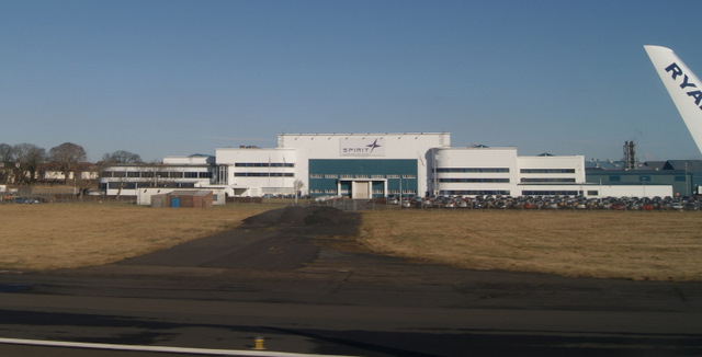 Spirit Aerosystems building Part of an aircraft component factory complex by the main runway at Prestwick International Airport. Wing parts for various types of aircraft are produced in the complex which employs 750 people. Click on this for more information. The art deco building began its life in 1938 at Bellahouston Park in Glasgow as the Palace Of Engineering during the Empire Exhibition. It was dismantled and moved to Prestwick in 1941, during WWII. Viewed from a Brussels bound Ryanair aircraft.